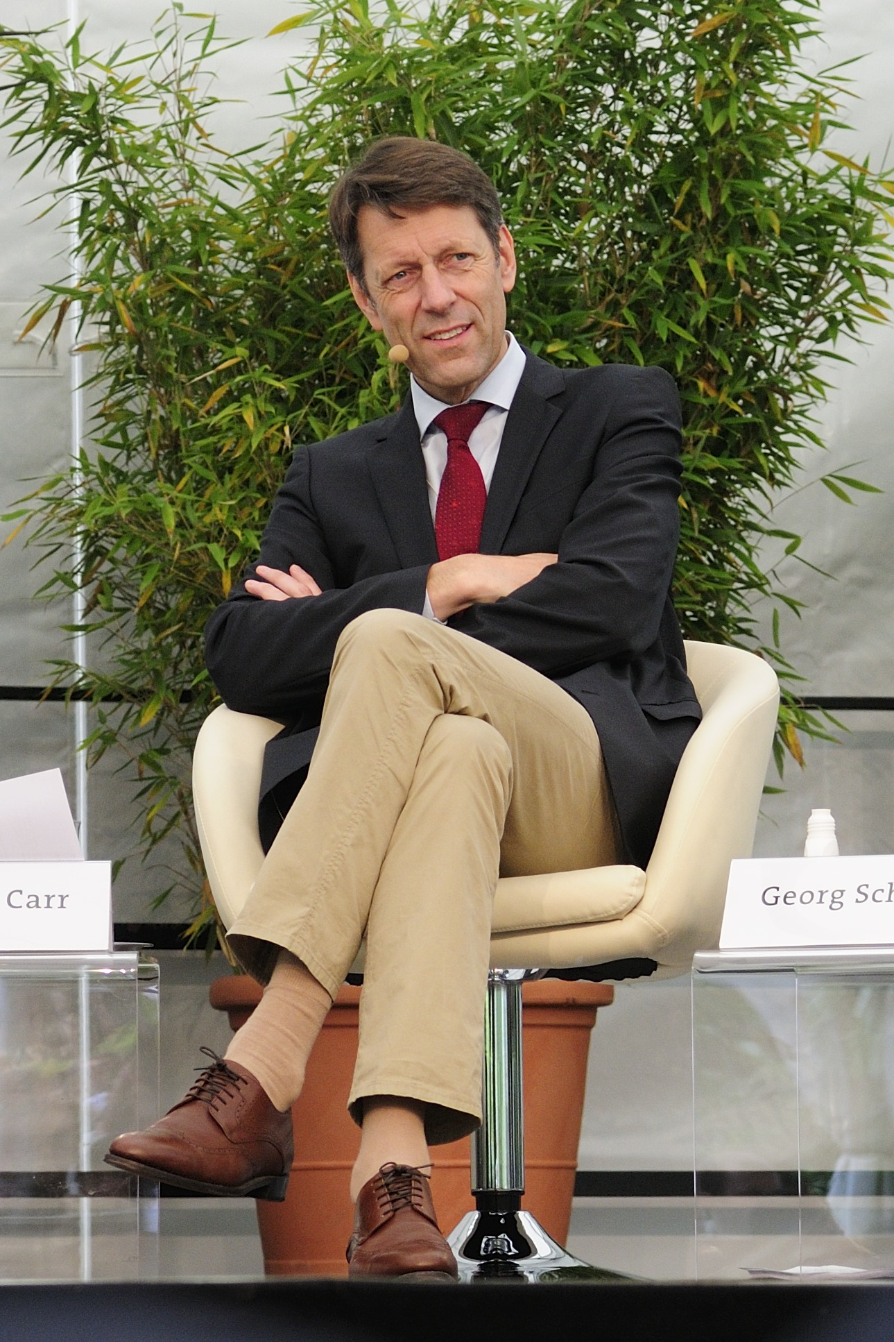 Georg Schütte at the panel discussion of the Lindau Nobel Laureatte Meeeting